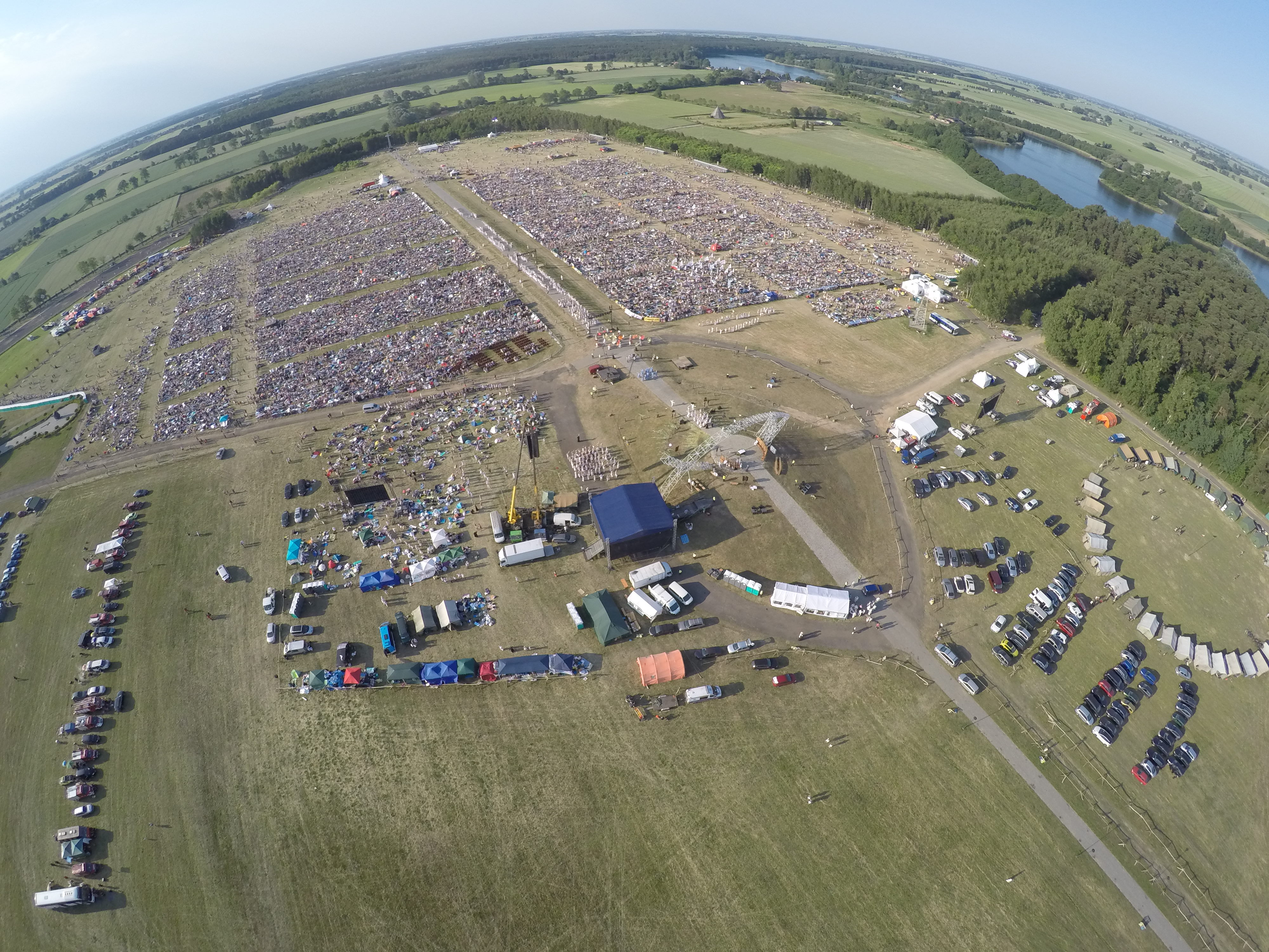 Youth Meeting LEDNICA 2000